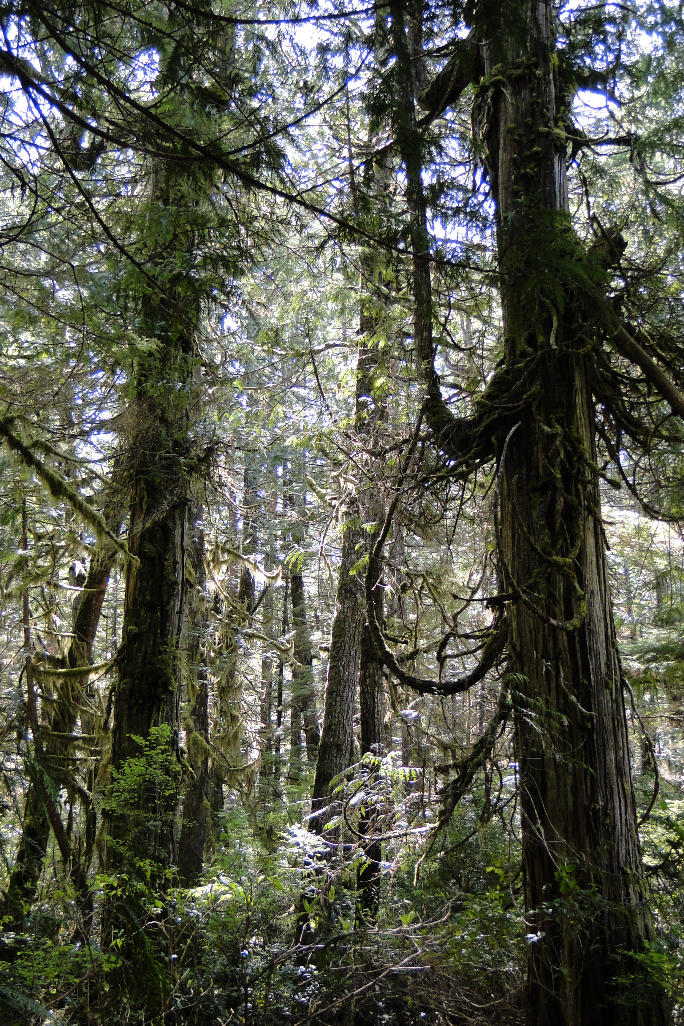 Rain Forest Walk - Pacific Rim National Park - Vancouver Island BC - Canada - 01